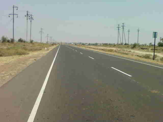 This pic was captured by me